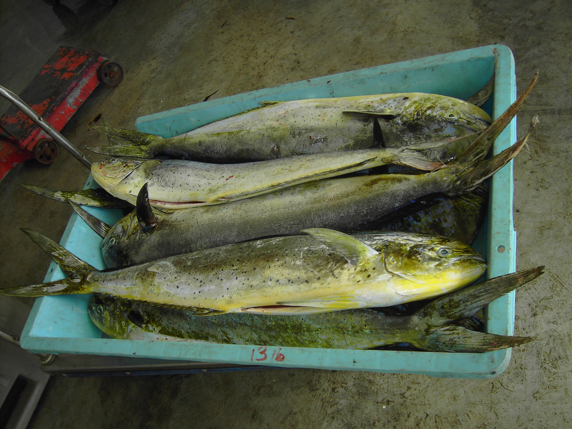 Dolphin fish at Marigot fishing port, Dominica, W.I.